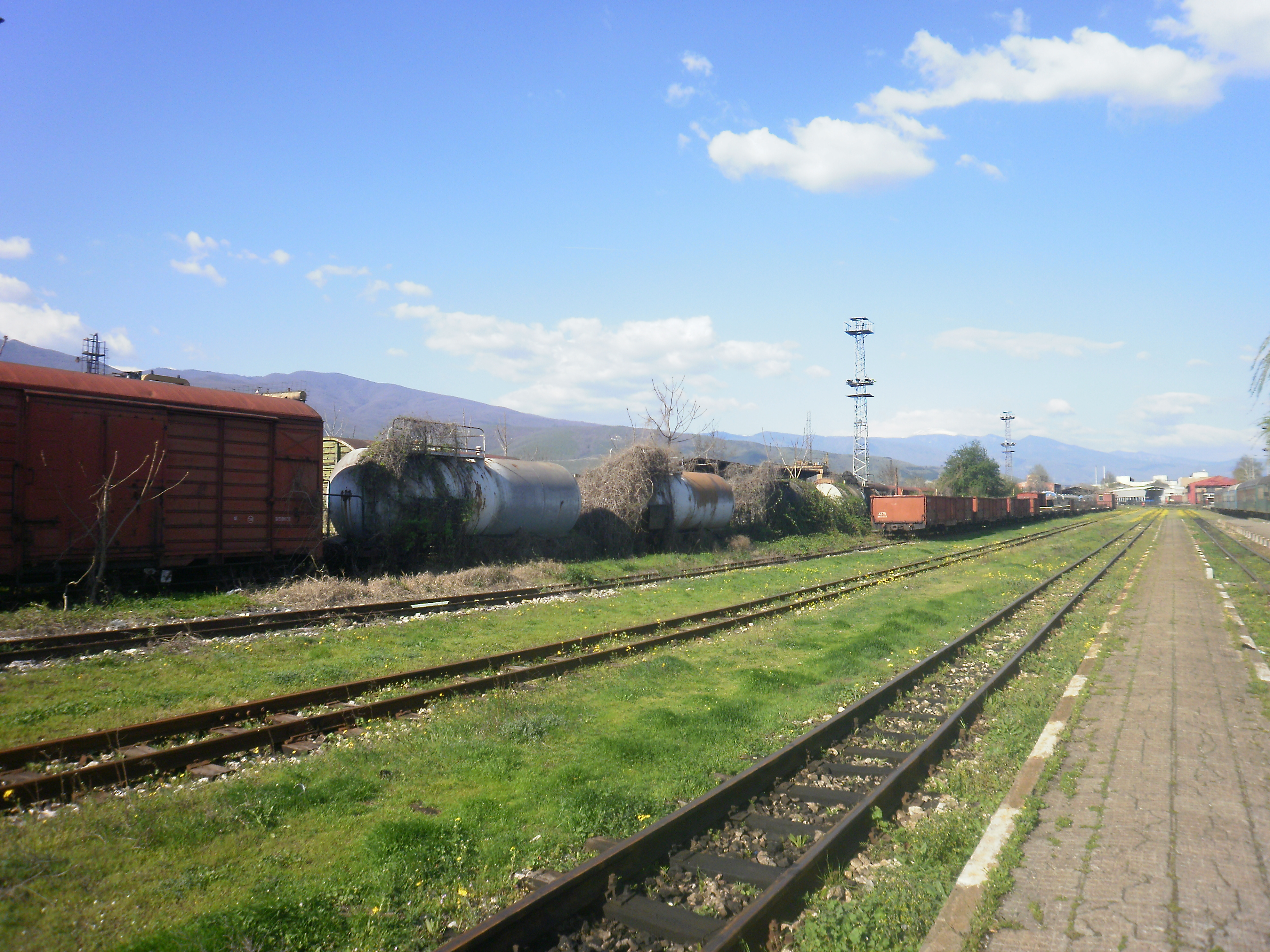 Septemvri narrow gauge railway station, Bulgaria.